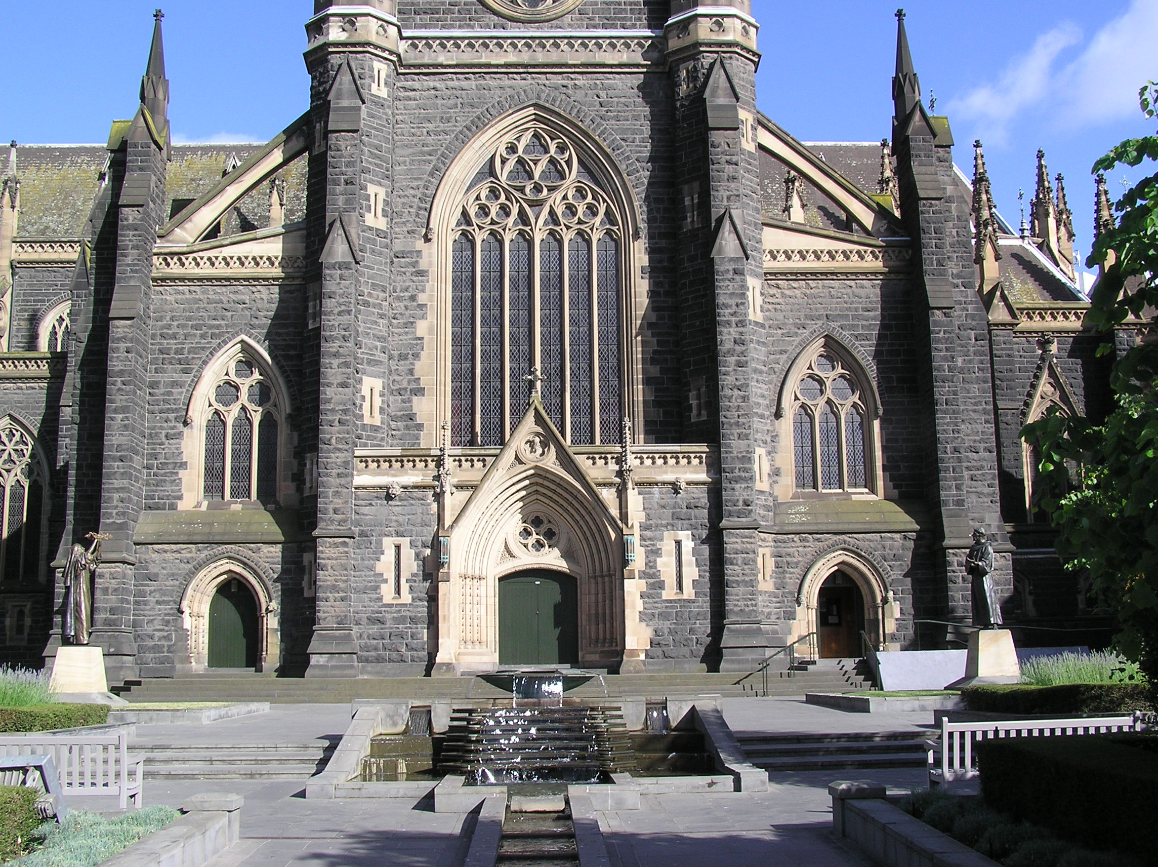 St Patrick's Cathedral ─ East Facade